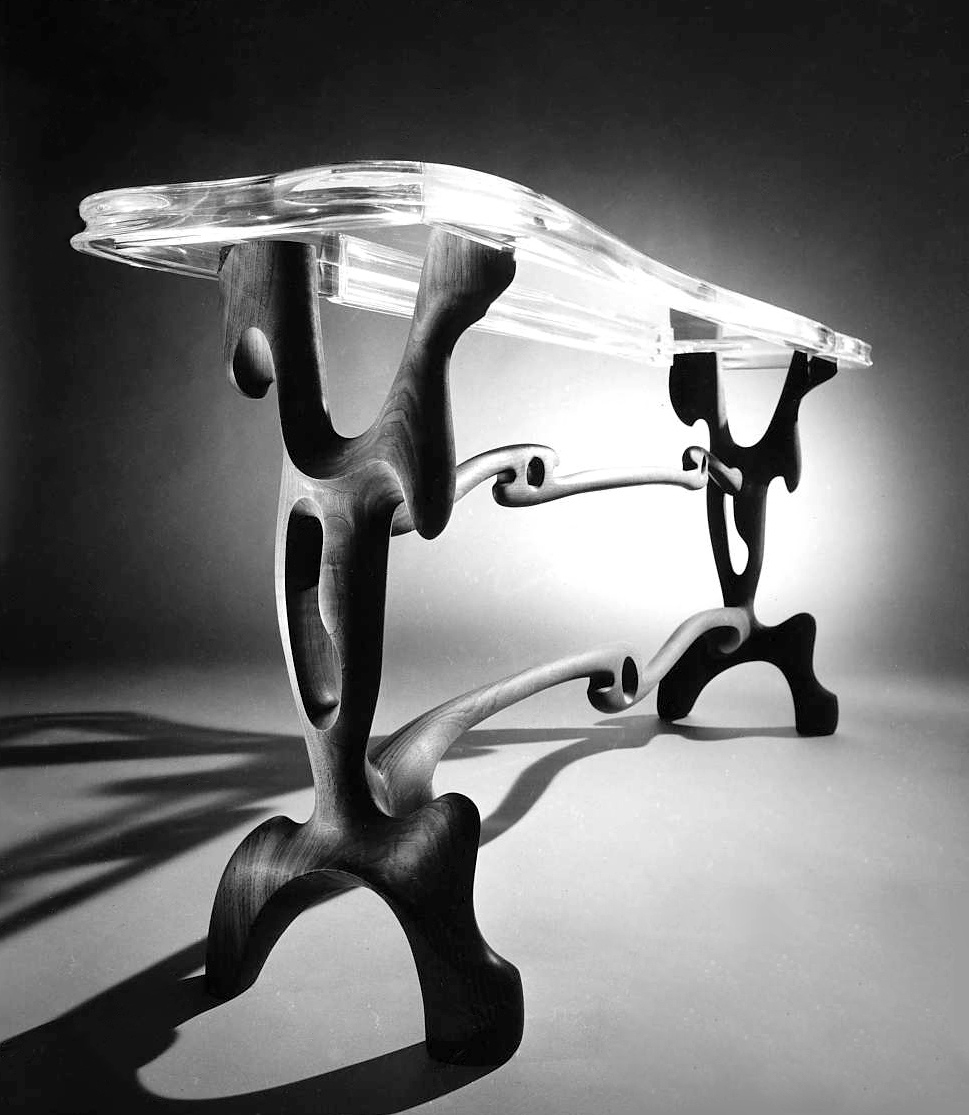 A table designed by Peter László.